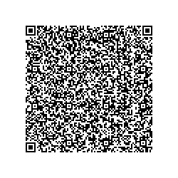 Another QR code shows Laura Shigihara's public information